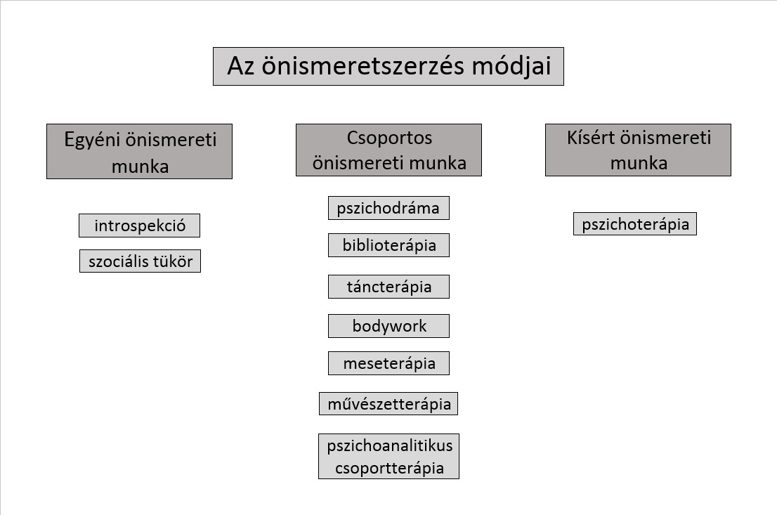 Types of Self Knowledge Improvement In Hungarian